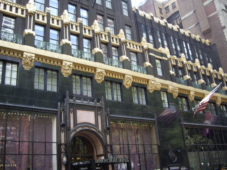 American Radiator Building Façade